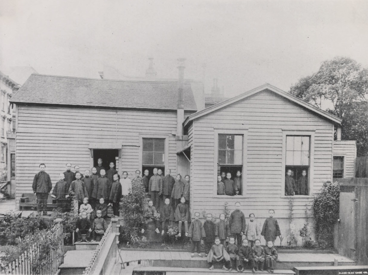 Photograph of the Chinese Primary School in San Francisco